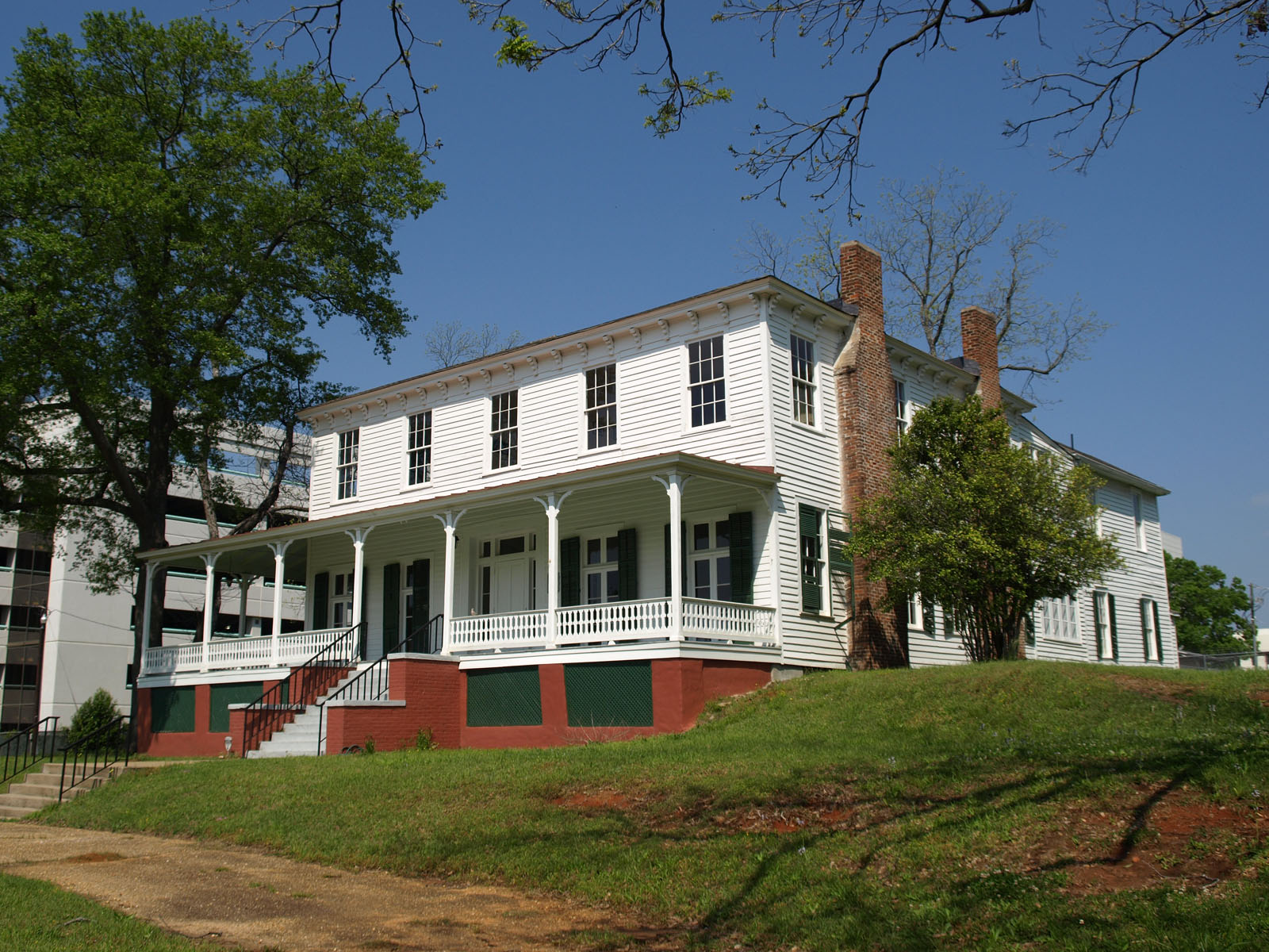 Front (west) and south sides of the Jackson-Community House in Montgomery, Alabama